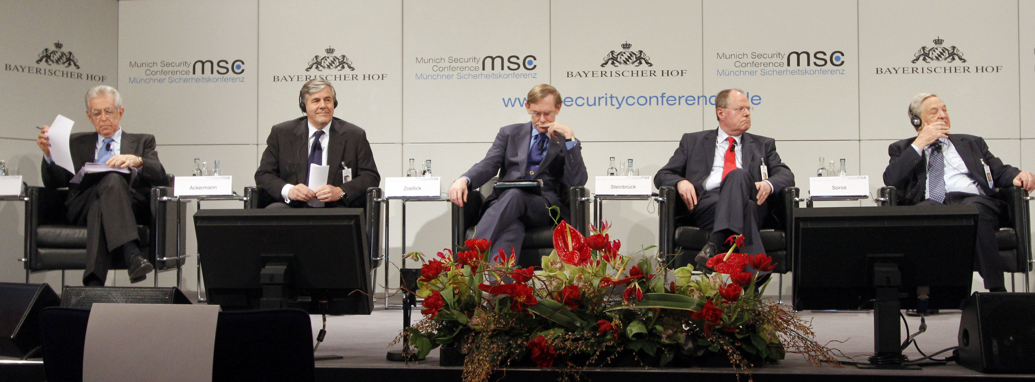 48th Munich Security Conference 2012: Discussion on Saturdayafternoon. From left - Mario Monti, President, Italia, Dr. Josef Ackermann, Chairmann of the Management Board and the Group Executive Committee, Deutsche Bank AG, Germany, Robert B. Zoellick, President, The World Bank Group, USA, Peer Steinbrück, SPD-Parliamentary Group, Germany, George Soros, Chairmann, Soros Fund Management LLC and Open Society Foundations, USA.